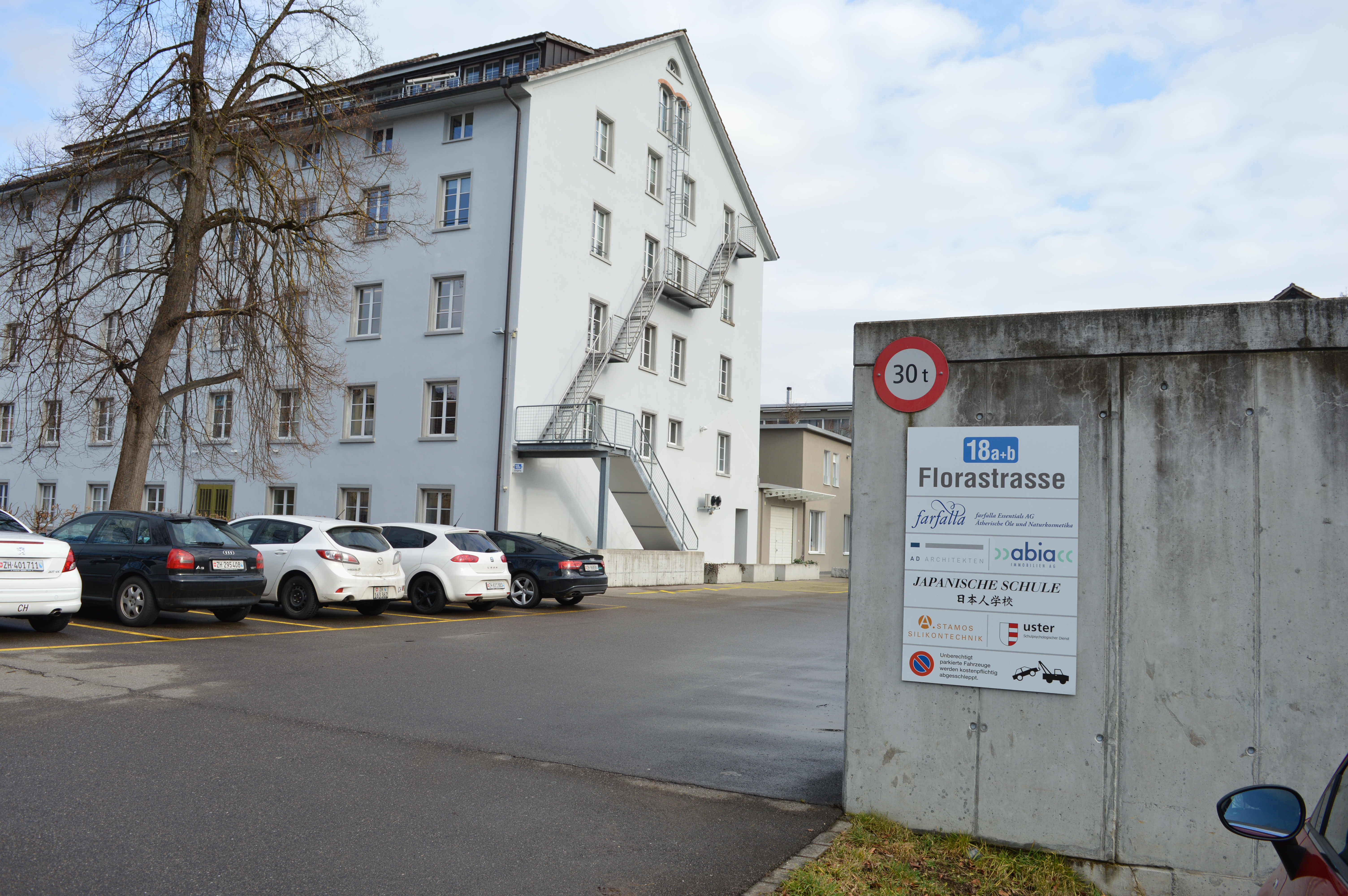 Japanese School Zurich, city of Uster, canton of Zürich, SwitzerlandEsperanto: Japana Lernejo Zuriko, Uster, Kantono Zuriko, Svislando